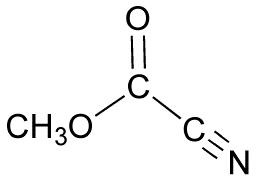 structure of methyl cyanoformate